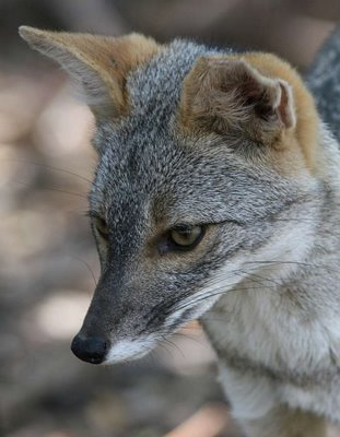 This fox was at Chaparri, in western Peru. The fox was very bold, living closely associated with the Lodge in the community-owened reserve(text by Mike Weedon).